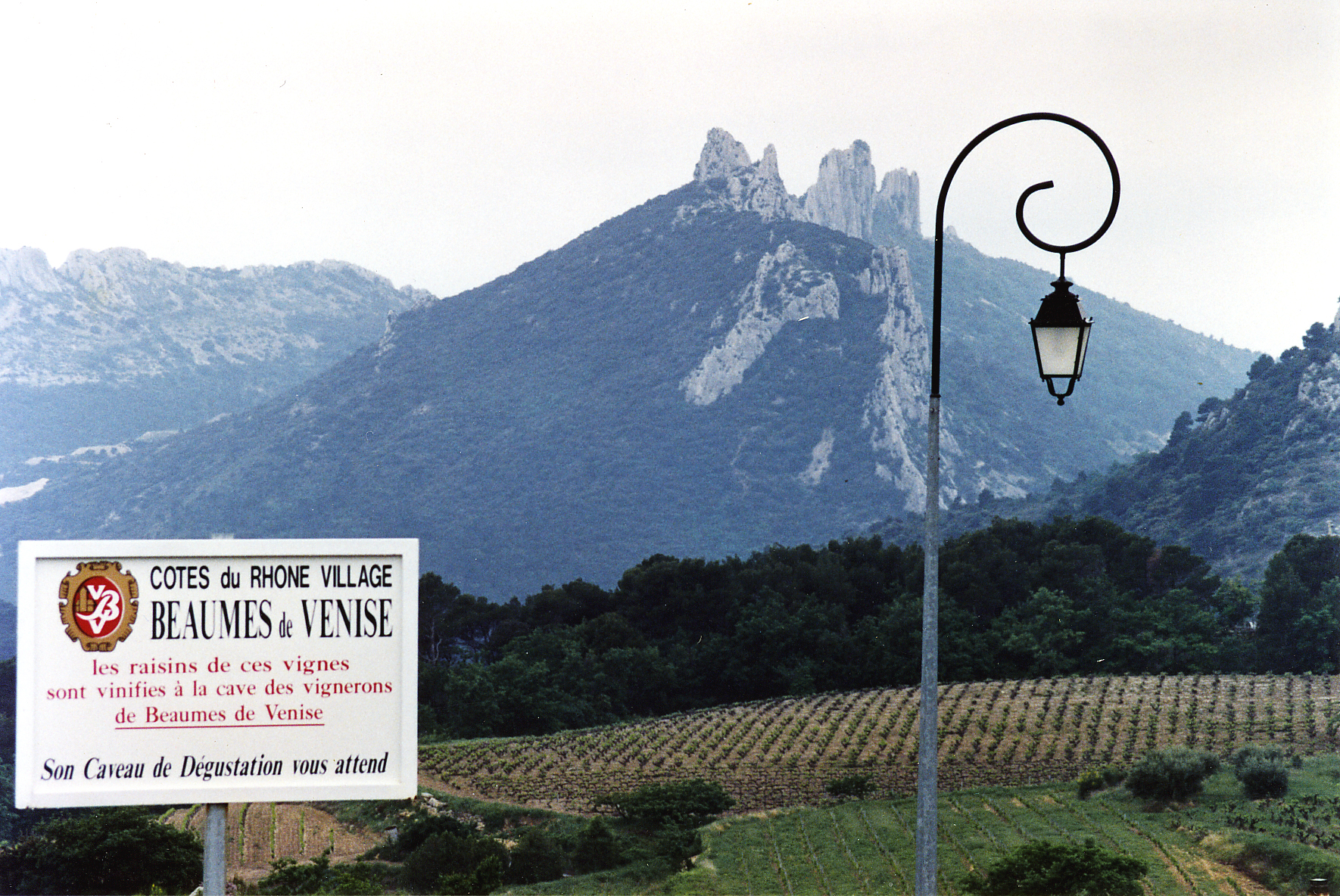 Vineyard in the French wine region of Beaumes de Venise of the Southern Rhone Valley within view of the Dentelles Mountains.